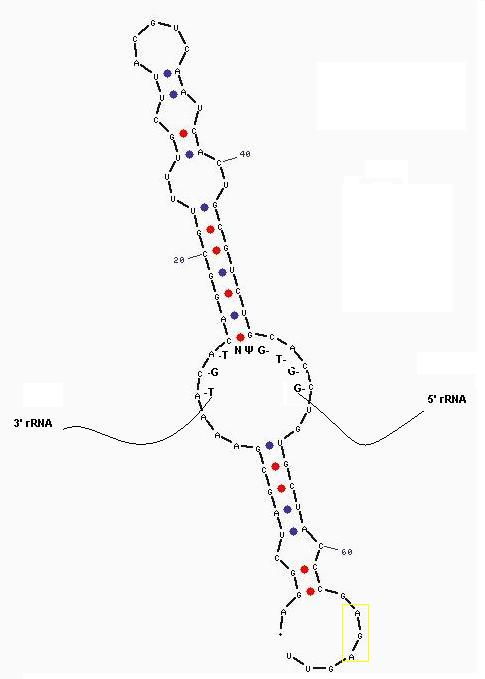 A skeleton of an H/ACA snoRNA in Trypanosomes with the AGA-box and pseuduridinylation pocket highlighted.